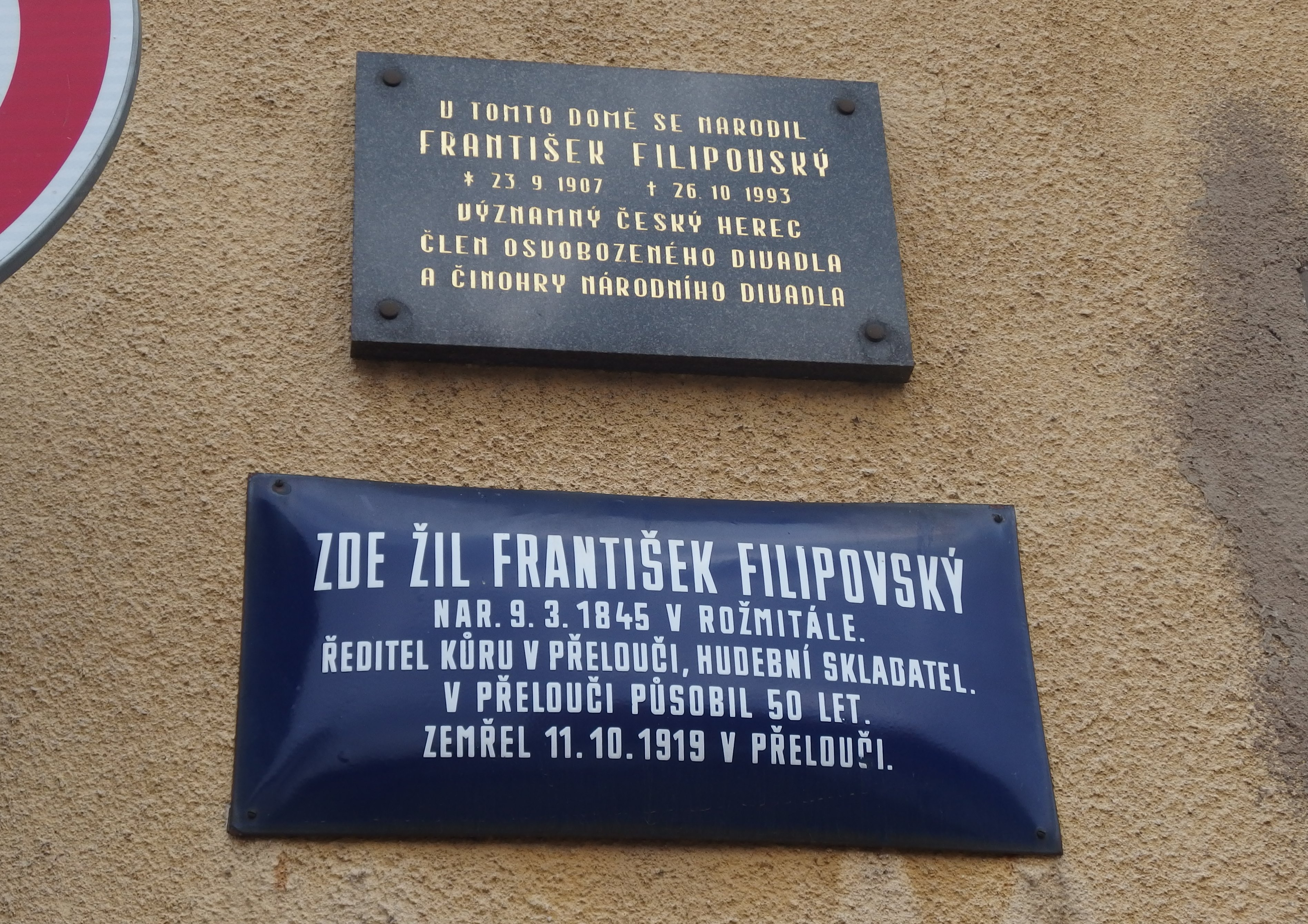 Přelouč, Pardubice District, Czech Republic.